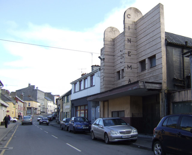 Art deco cinema, Rathkeale, Co. Limerick The now disused Central cinema on Lower Main Street.